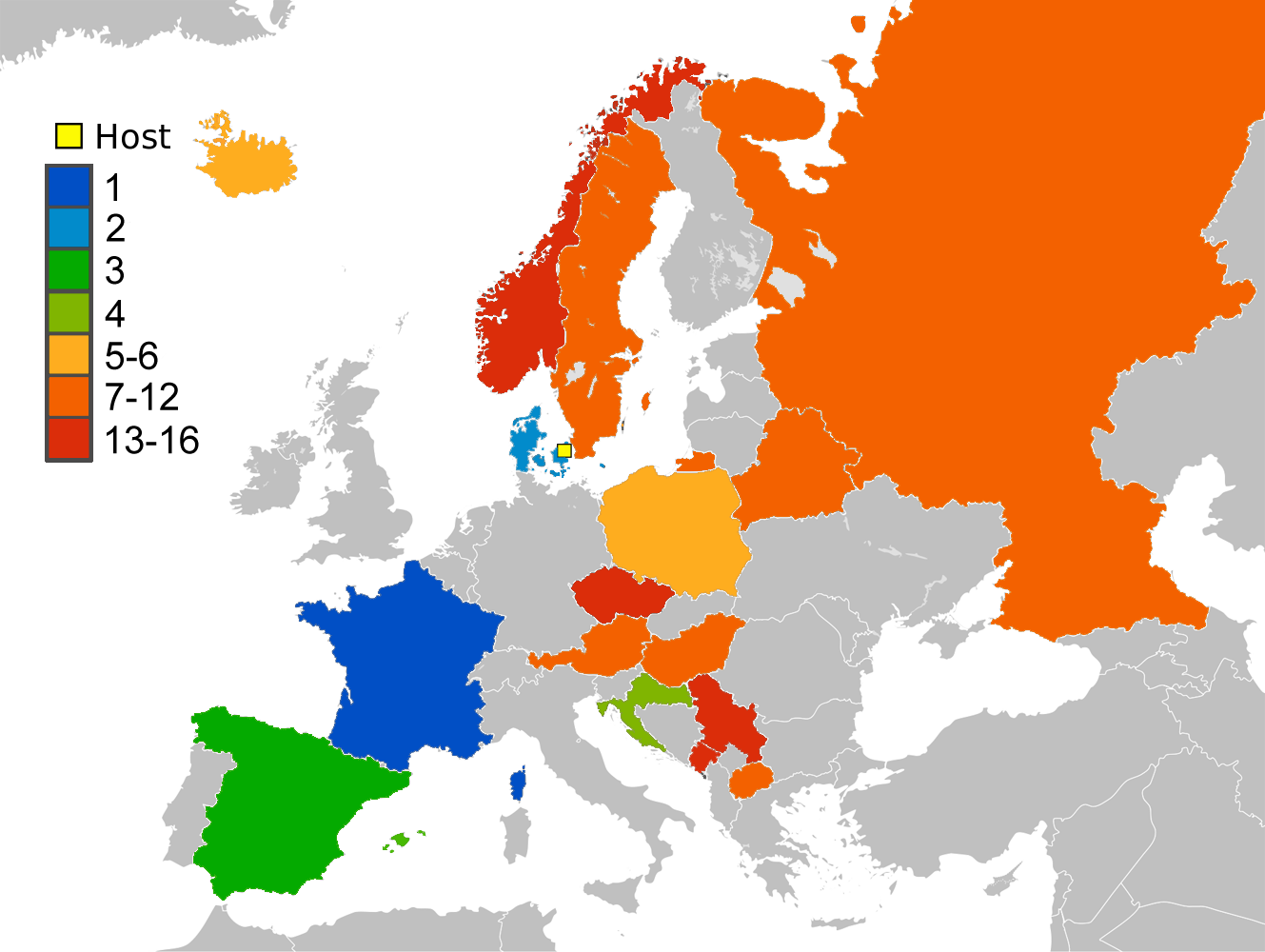 Result of 2014 European men's handball championship